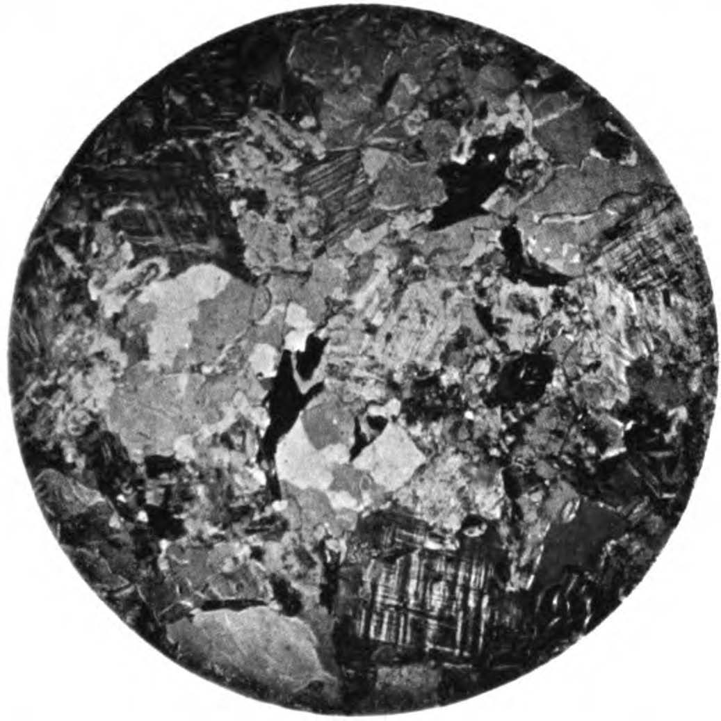 Plate XVII, Figure 1, of 1898 publication called Maryland Geological Survey Volume Two, with caption "Photomicrograph of Granite, Granite. (Magnified Ten Diameters)" Field represents approximately 0.85 cm. It shows what is now called the Woodstock Quartz Monzonite, under crossed polarized light.